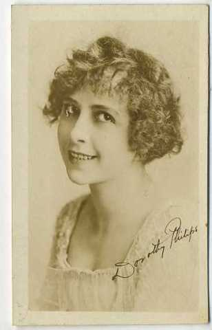 Real Photo Movie Card of Dorothy Phillips